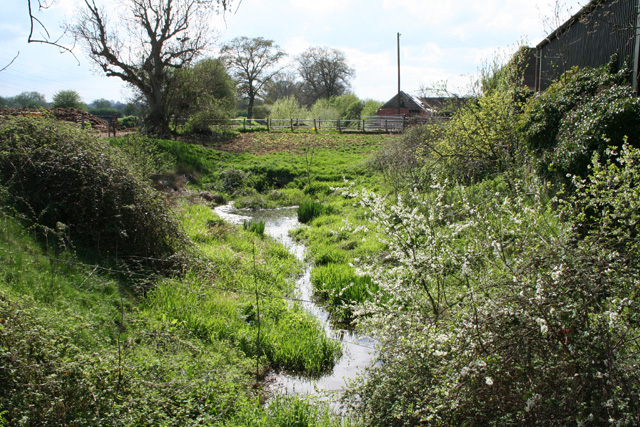 Bradford-on-Tone: Grand Western Canal at Trefusis, Somerset. The remains of the old canal by Trefusis Farm. One of the canal’s seven lifts was located near here. Looking roughly south west